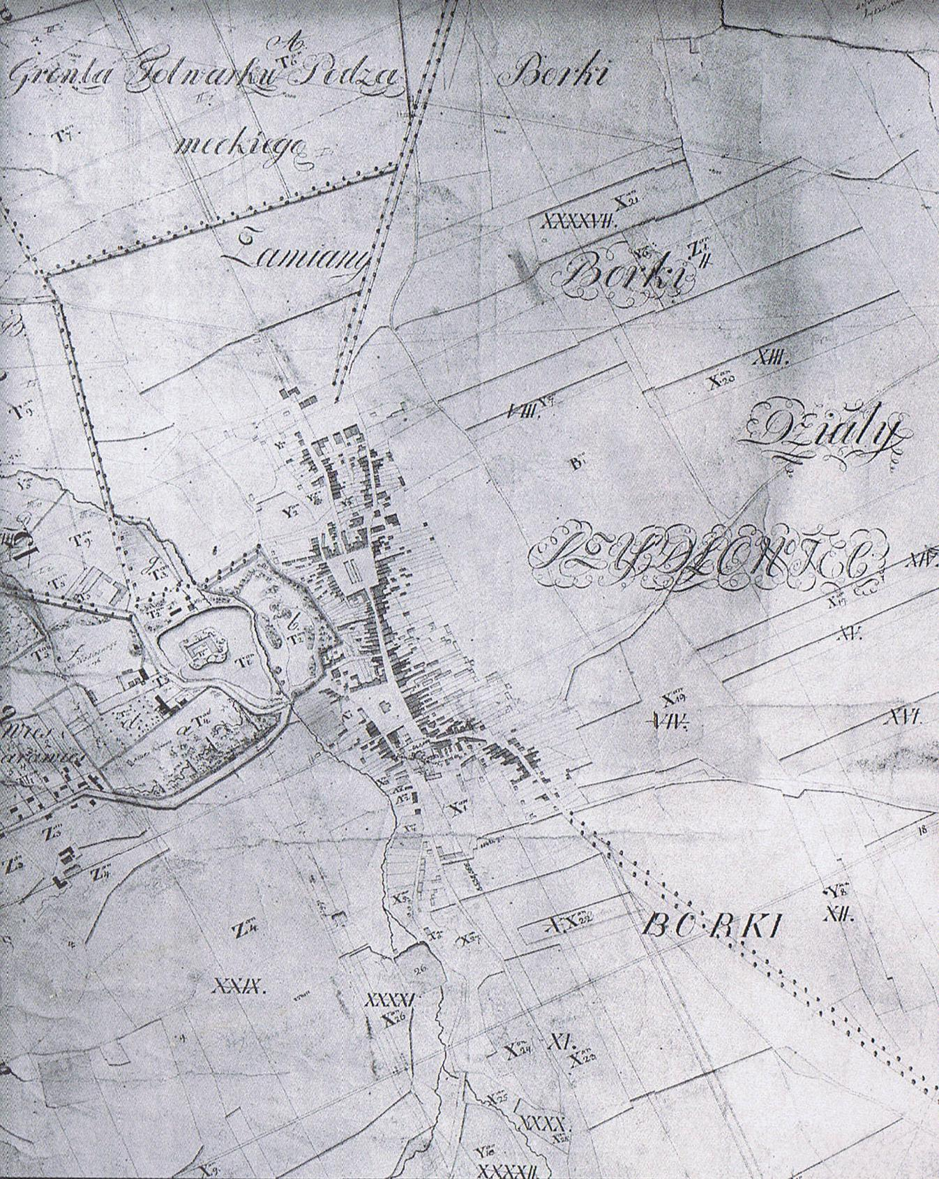 The layout of Szydłowiec made in 1826 by the land surveyor Jan Zawadzki